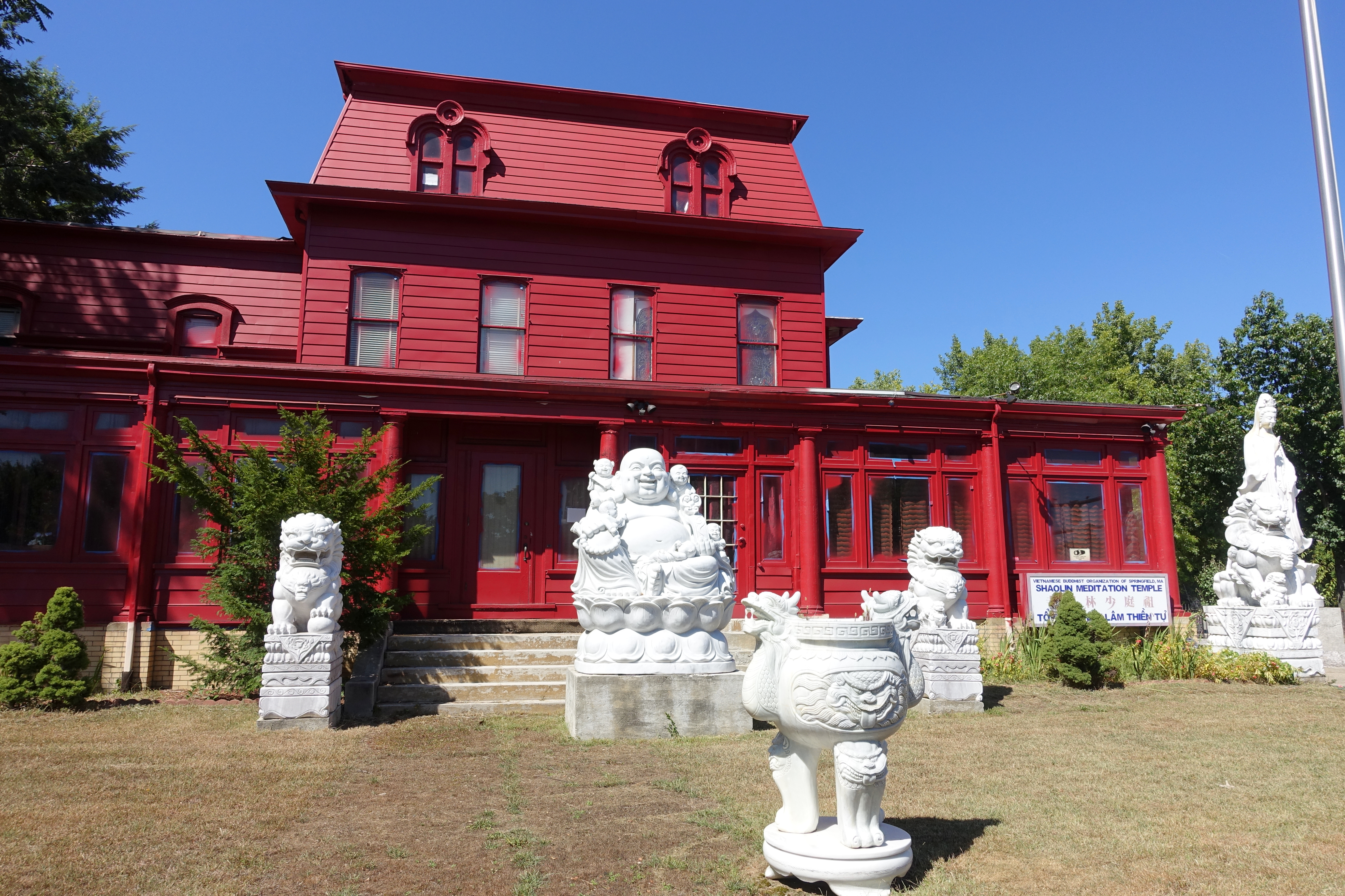 Shaolin Meditation Temple - Springfield, Massachusetts, USA.